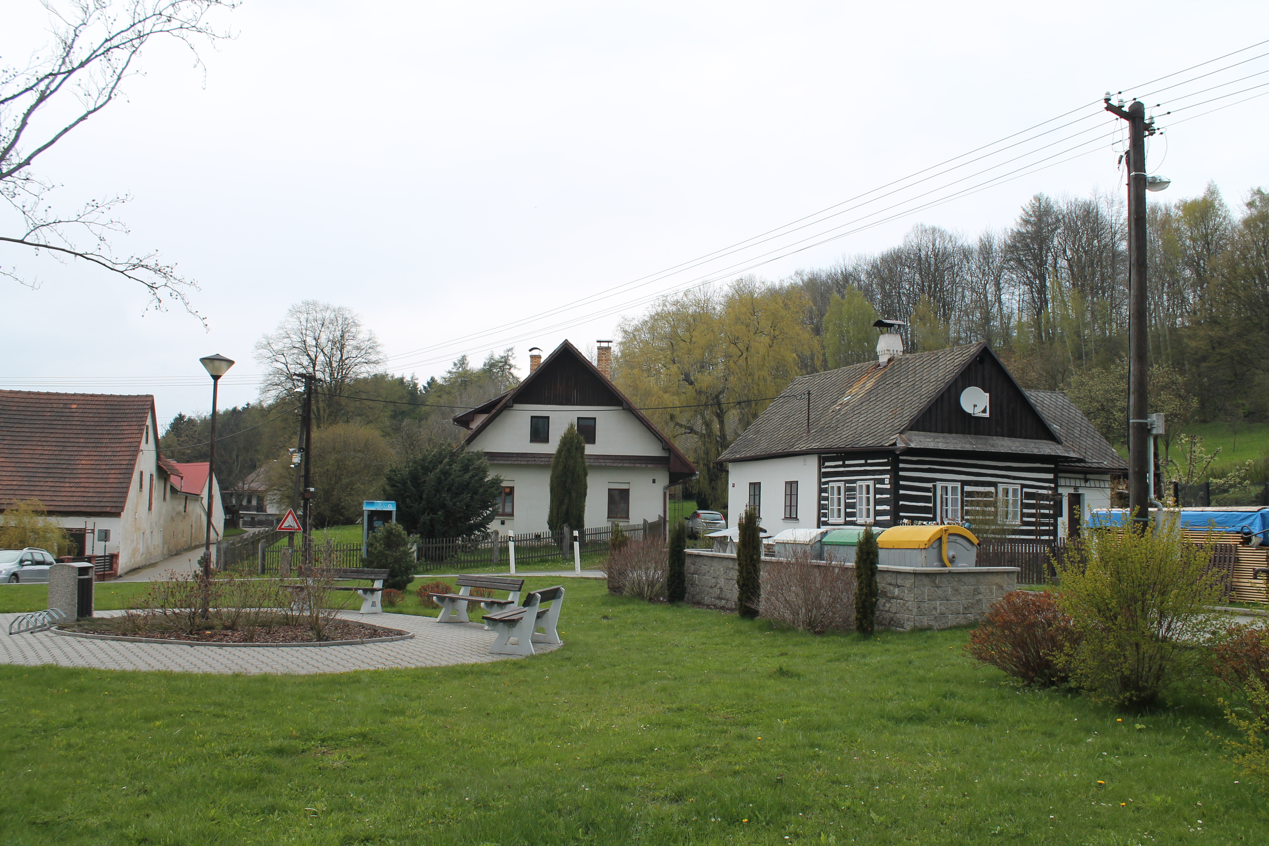 Kněževes, Blansko District, Czech Republic This photograph was taken during a group photography field trip by Brno Wikipedians: 2017-04-29.